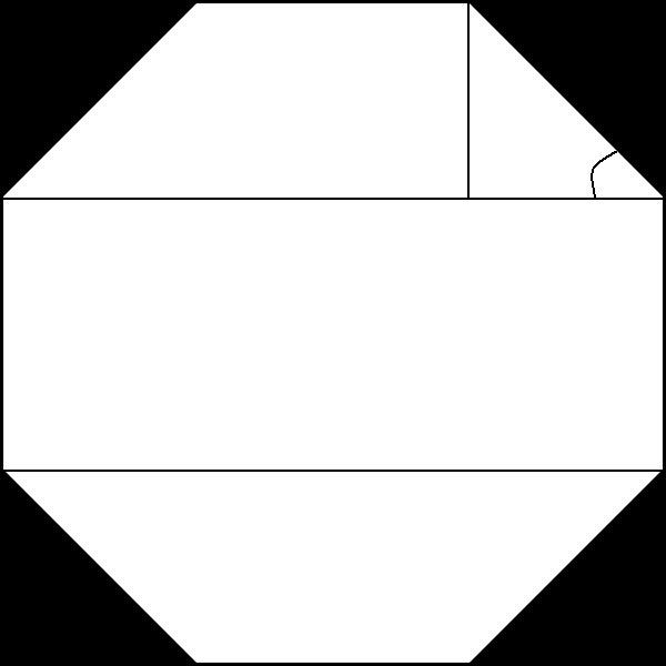 A regular octagon.